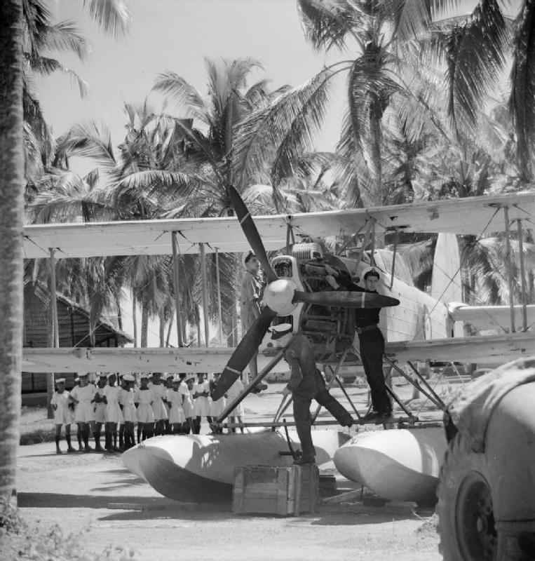 The Royal Navy during the Second World War Petty Officer Air Fitter Harvey, Petty Officer Air Fitter Hughes, and Petty Officer Air Fitter Mason of Liverpool at work on the Fairey Seafox at the Royal Naval Aircraft Establishment at Maharagama, Ceylon. Their next class of Ceylonese recruits is waiting in the background.